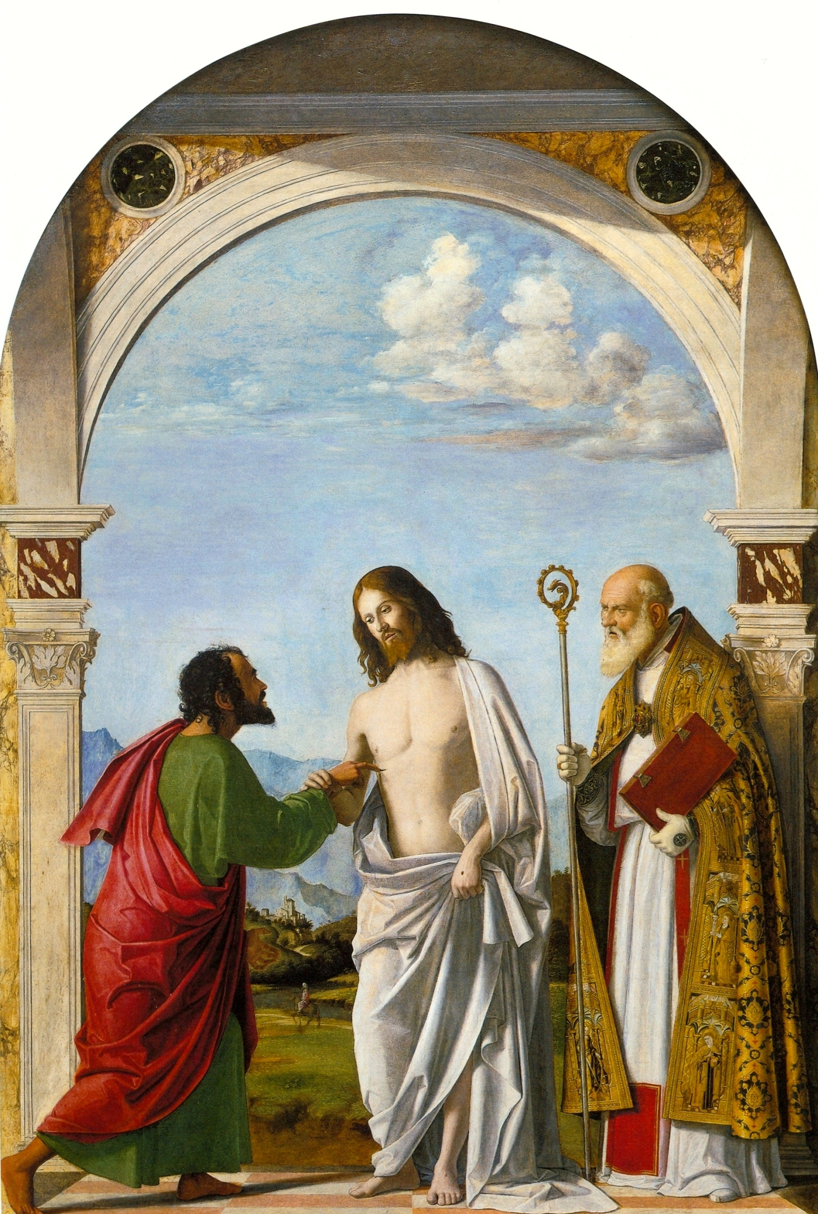 Cima da Conegliano, Incredulity of Thomas with Bishop Magno. ca. 1505, 215x151cm, Galleria dell'Accademia, Venice